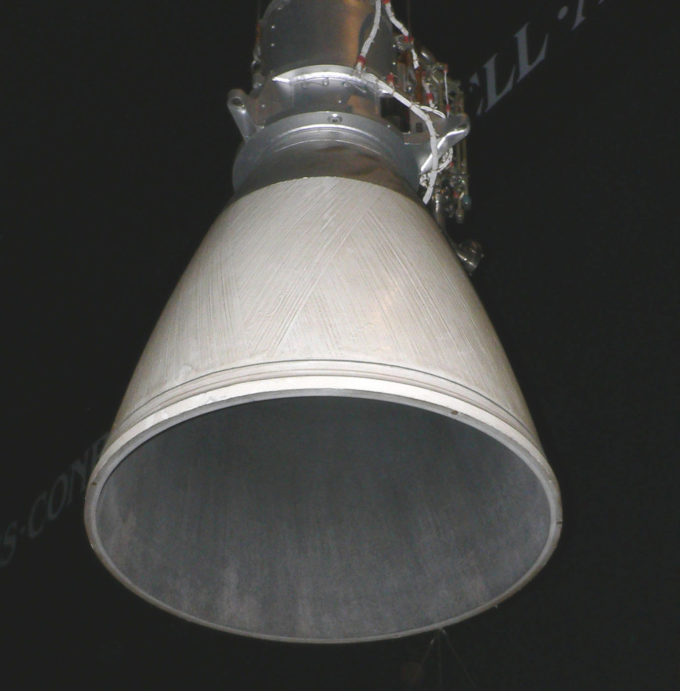 Lunar Module Ascent Engine at the National Air and Space Museum, Washington, D.C.